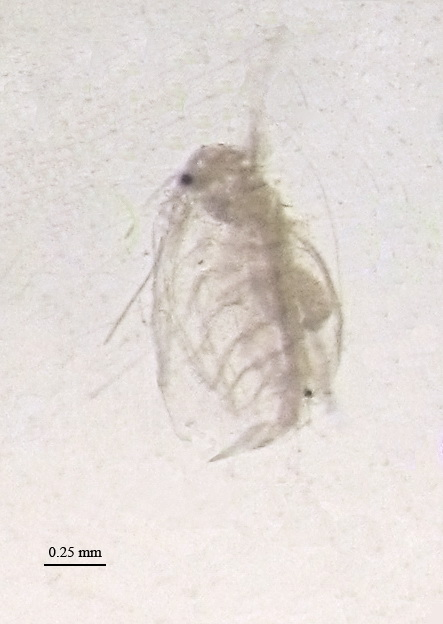 Hydrofront of Dnieper-Bug Liman